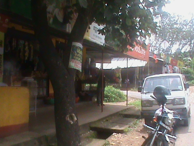 Kayakkunn village, situated in Wayanad district, Kerala